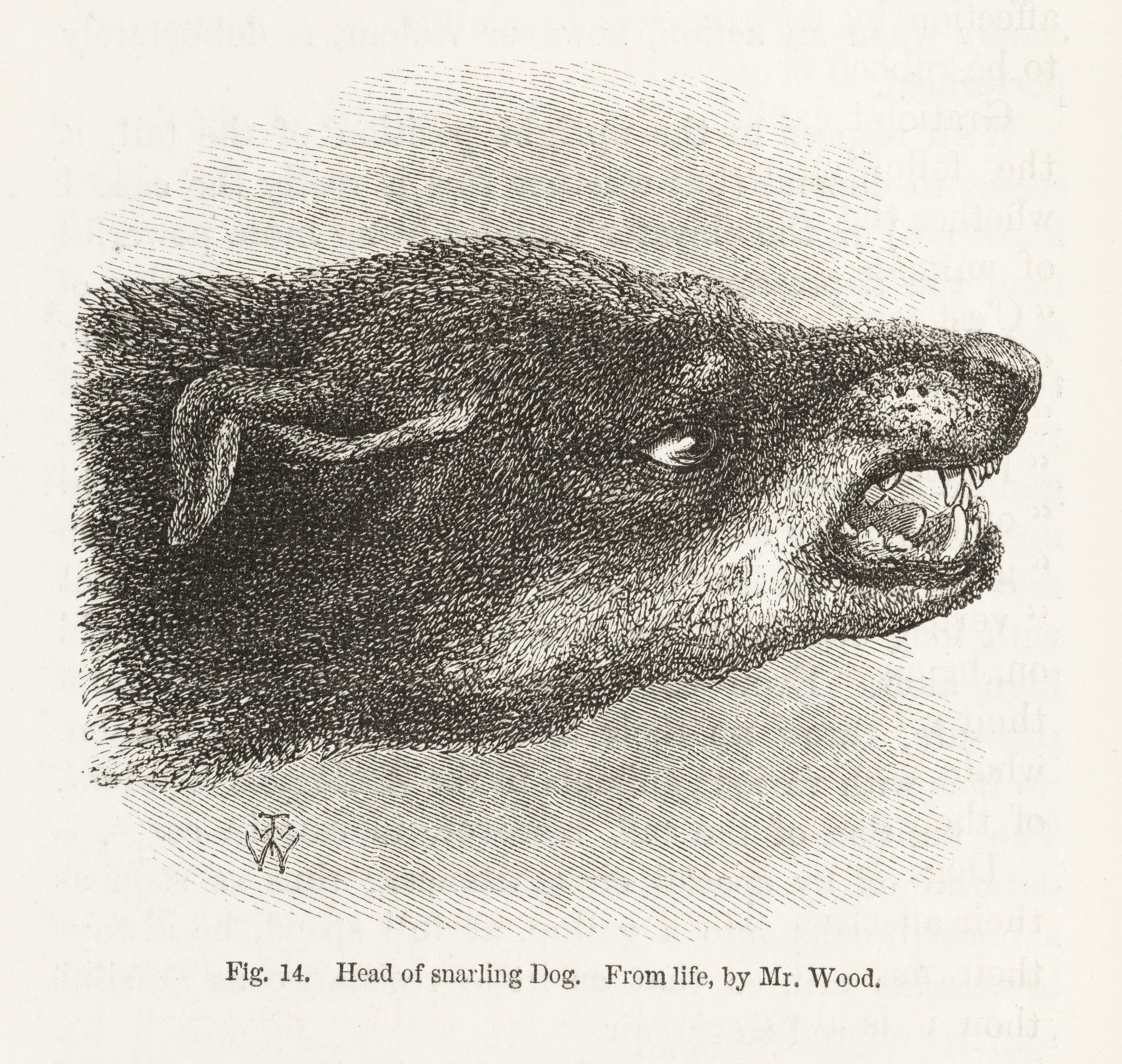 Illustration of the head of a snarling dog from Chapter V Special Expressions of Animals Medical Photographic Library